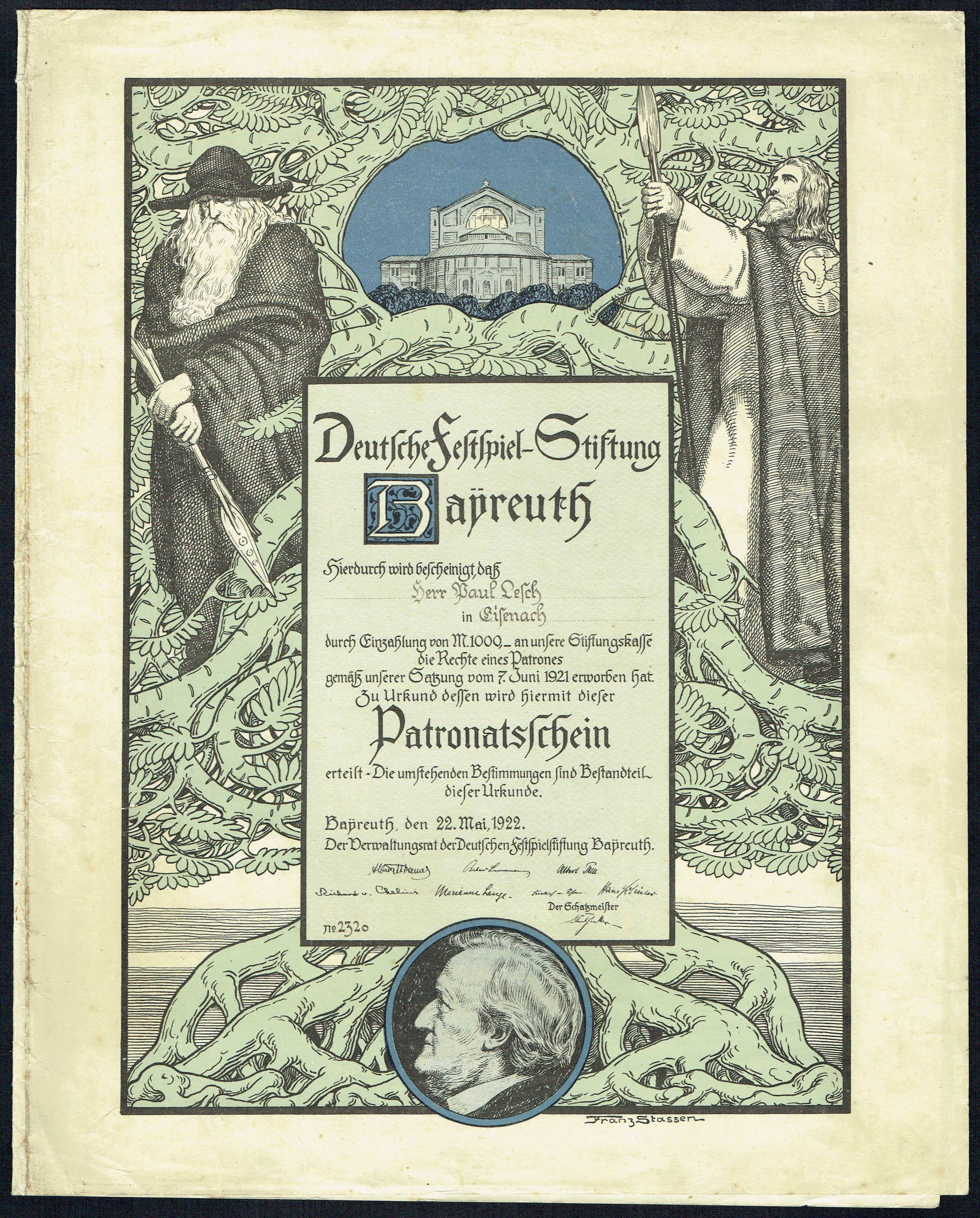 Patronage certificate of the Deutsche Festspiel-Stiftung, issued 22. May 1922